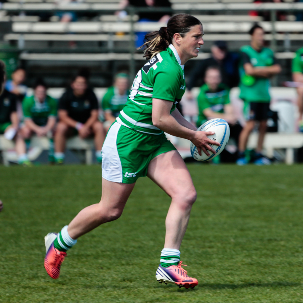 Women's NPC. Canterbury vs Manawatu 12 Oct 2013 at Rugby Park, Christchurch NZ. Canterbury won 36-18